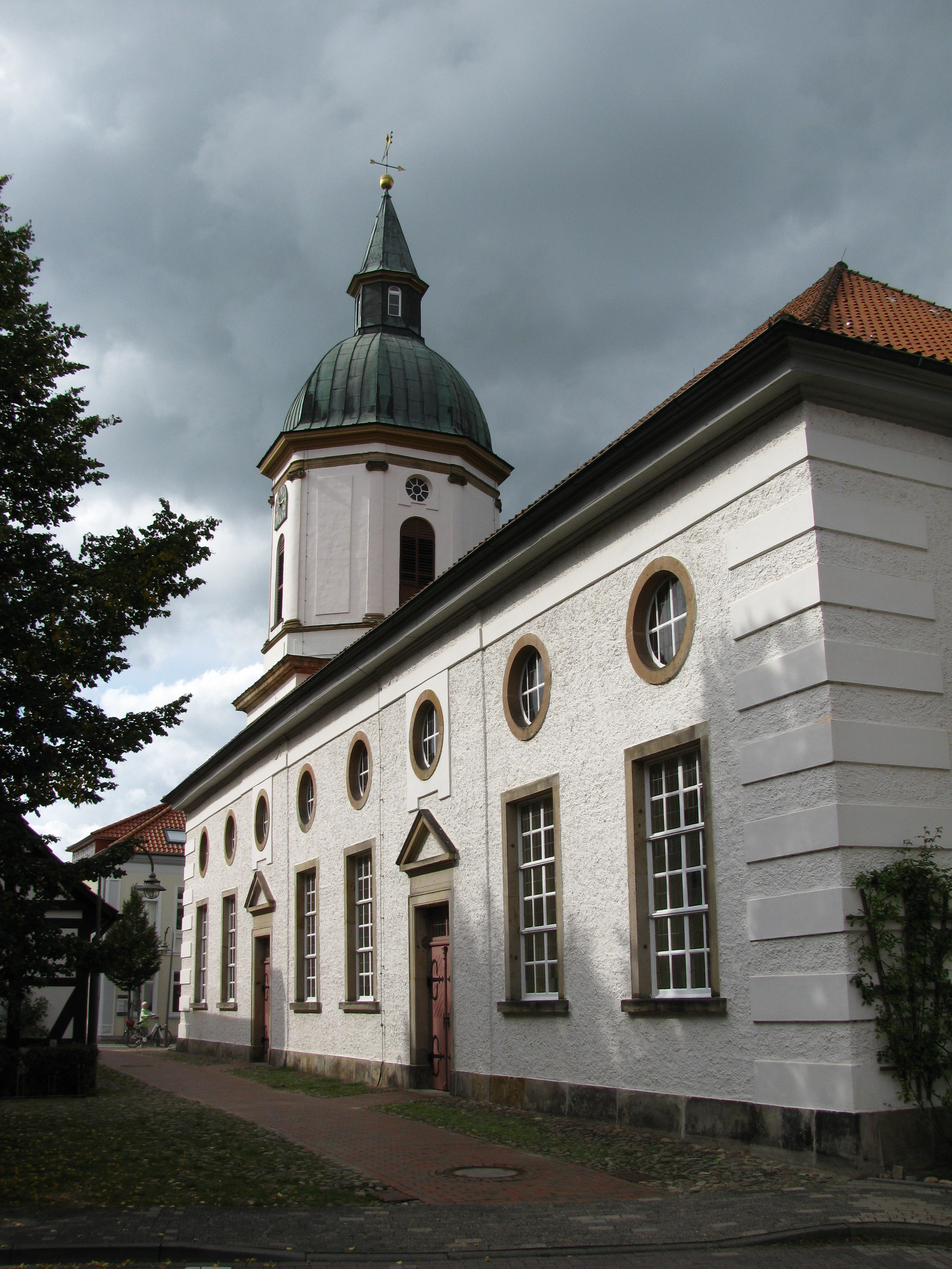 Church St. Nicolai in Diepholz (Lower Saxony, Germany), erected 1802-1806.